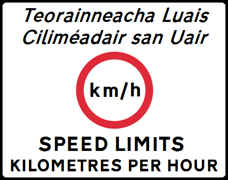 The road sign seen when entering Ireland from Northern Ireland informing drivers that the speed limits are now in kilometres per hour